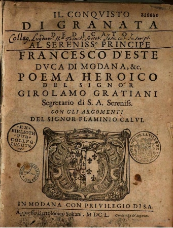 Photo of the front page of a copy of the original edition (1650)